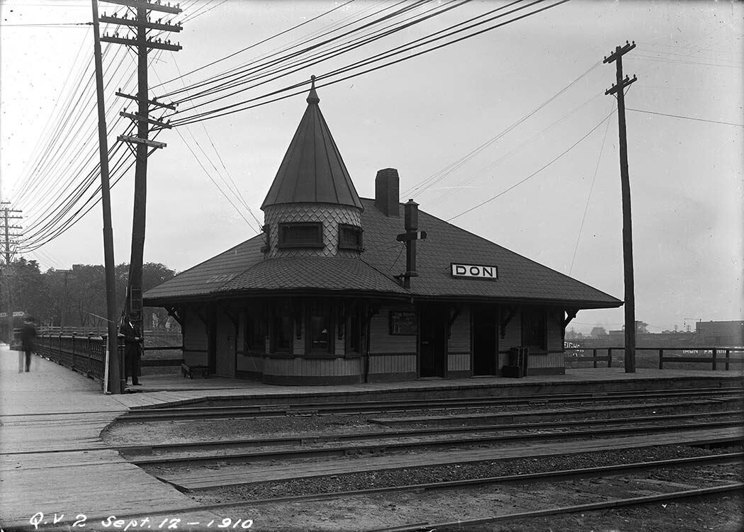 Close-up of Don Station (C.N.R.) Queen Street - King Street intersection